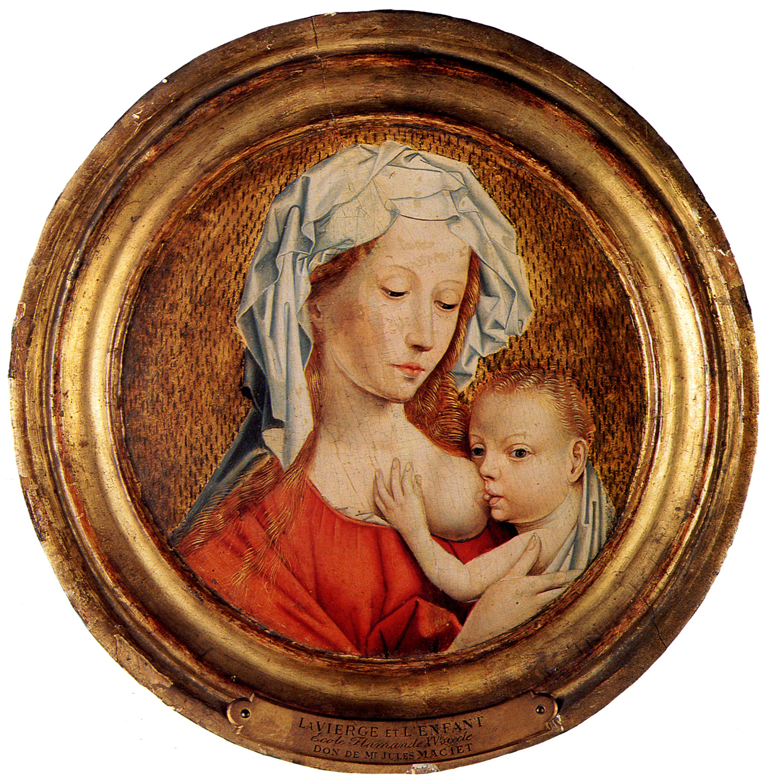 Madonna and Child Workshop of Robert Campin Oil on panel, 28.4 cm (diameter) Dijon, Musee des Beaux-Arts